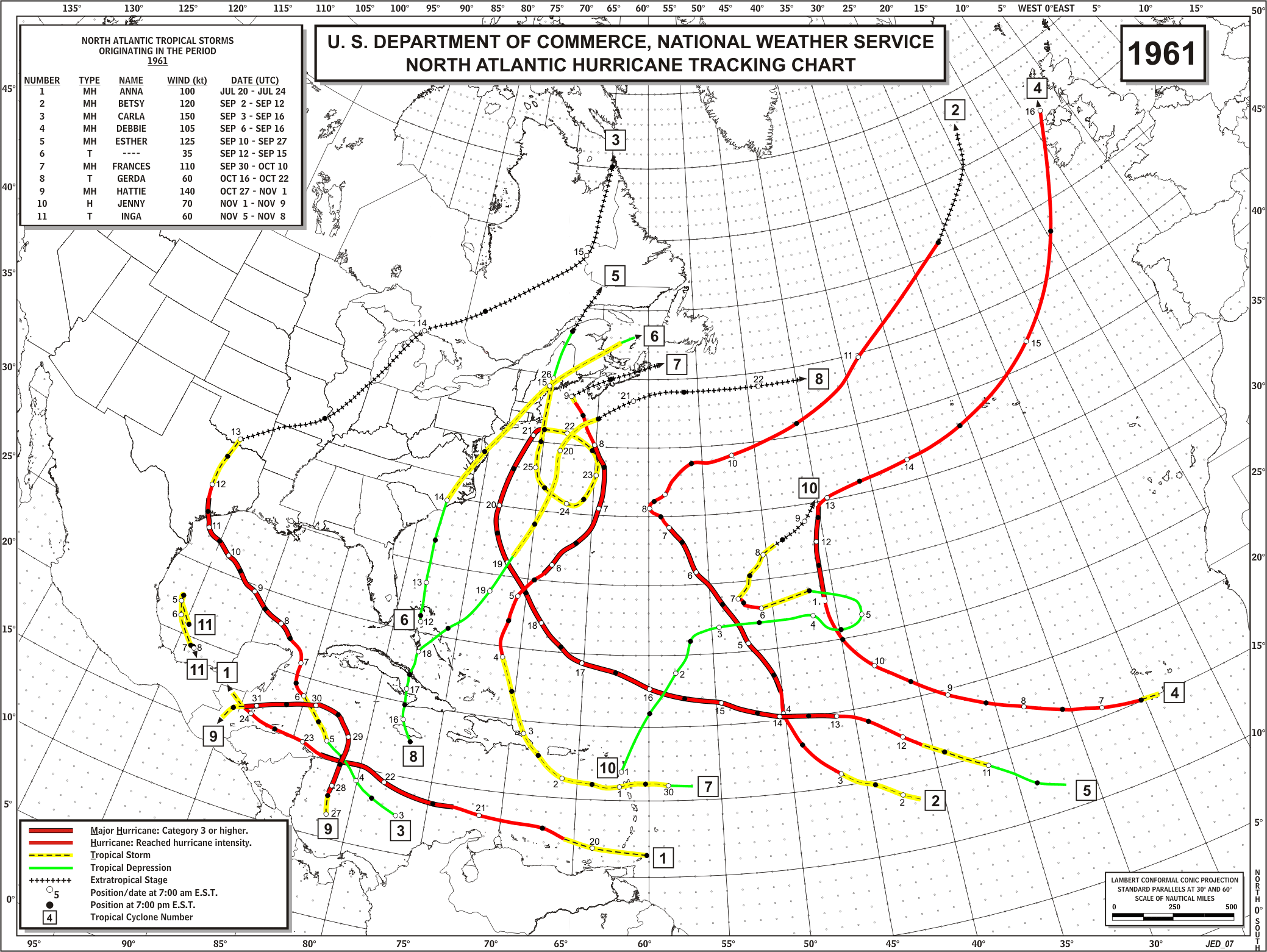 Season summary provided by NOAA of the 1961 Atlantic hurricane season.